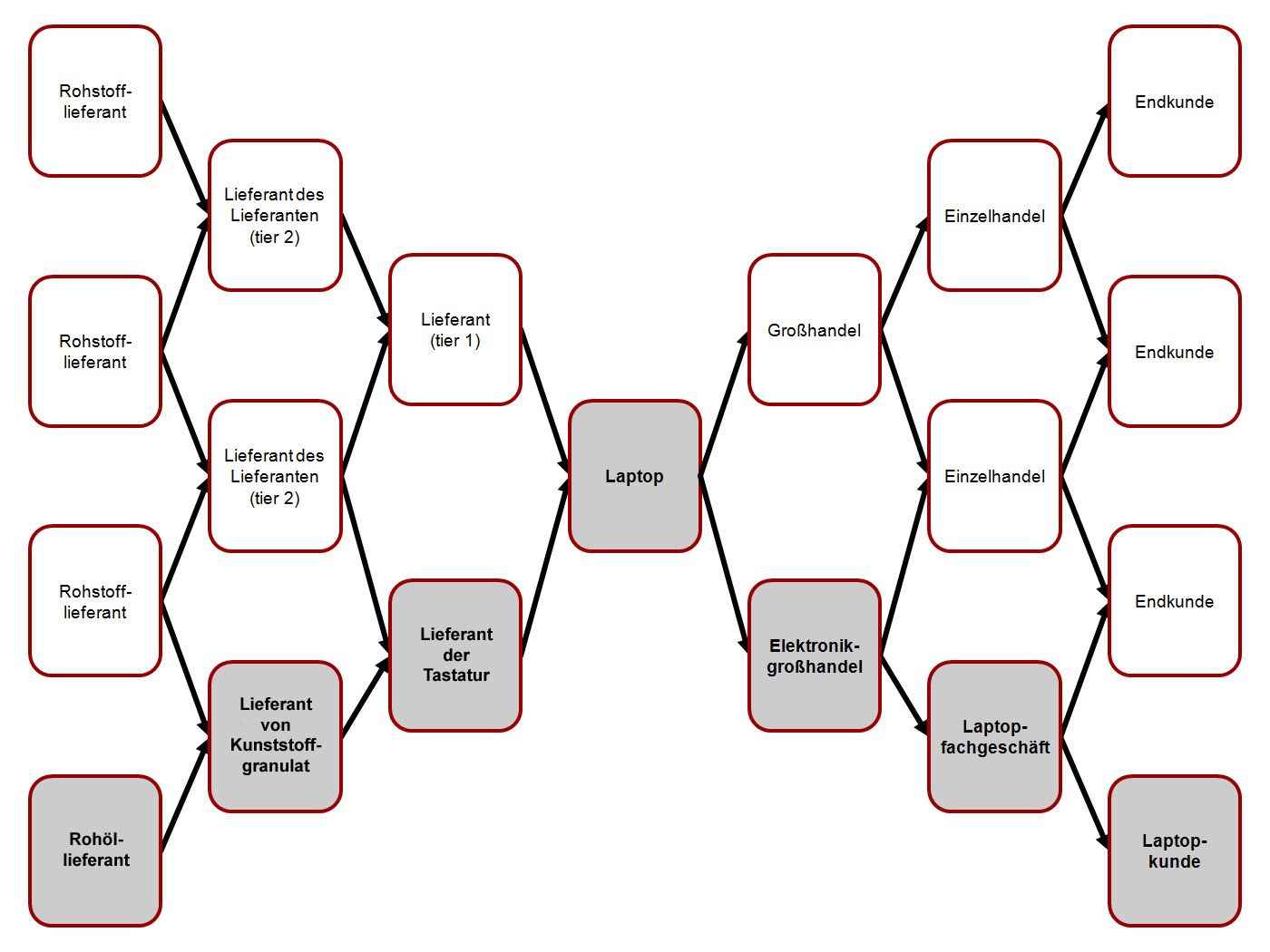 Supply and demand network